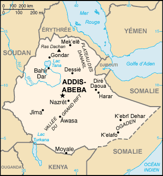 French map of Ethiopia